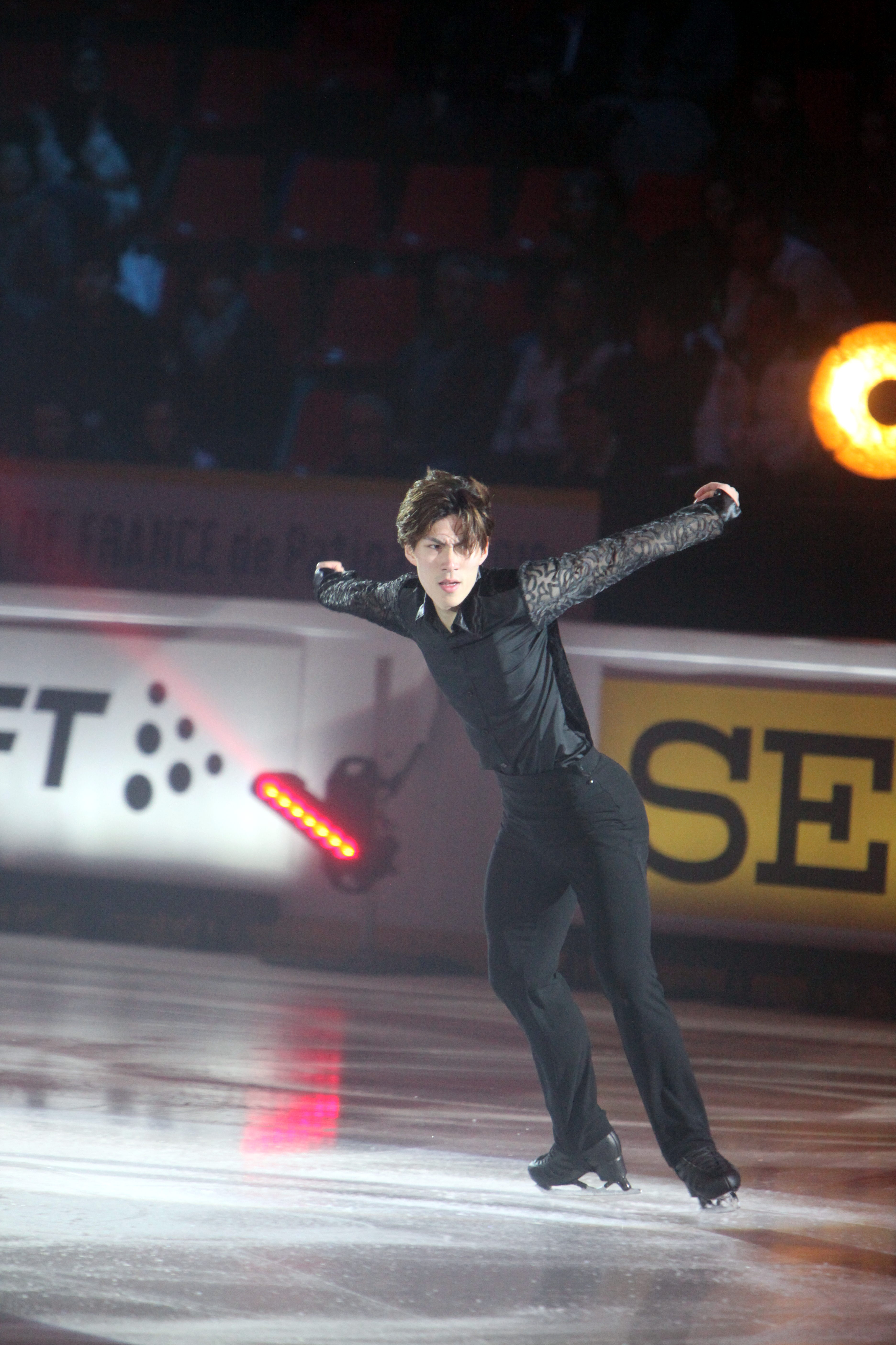 Keiji Tanaka during the gala at the Internationaux de France de Patinage 2018.